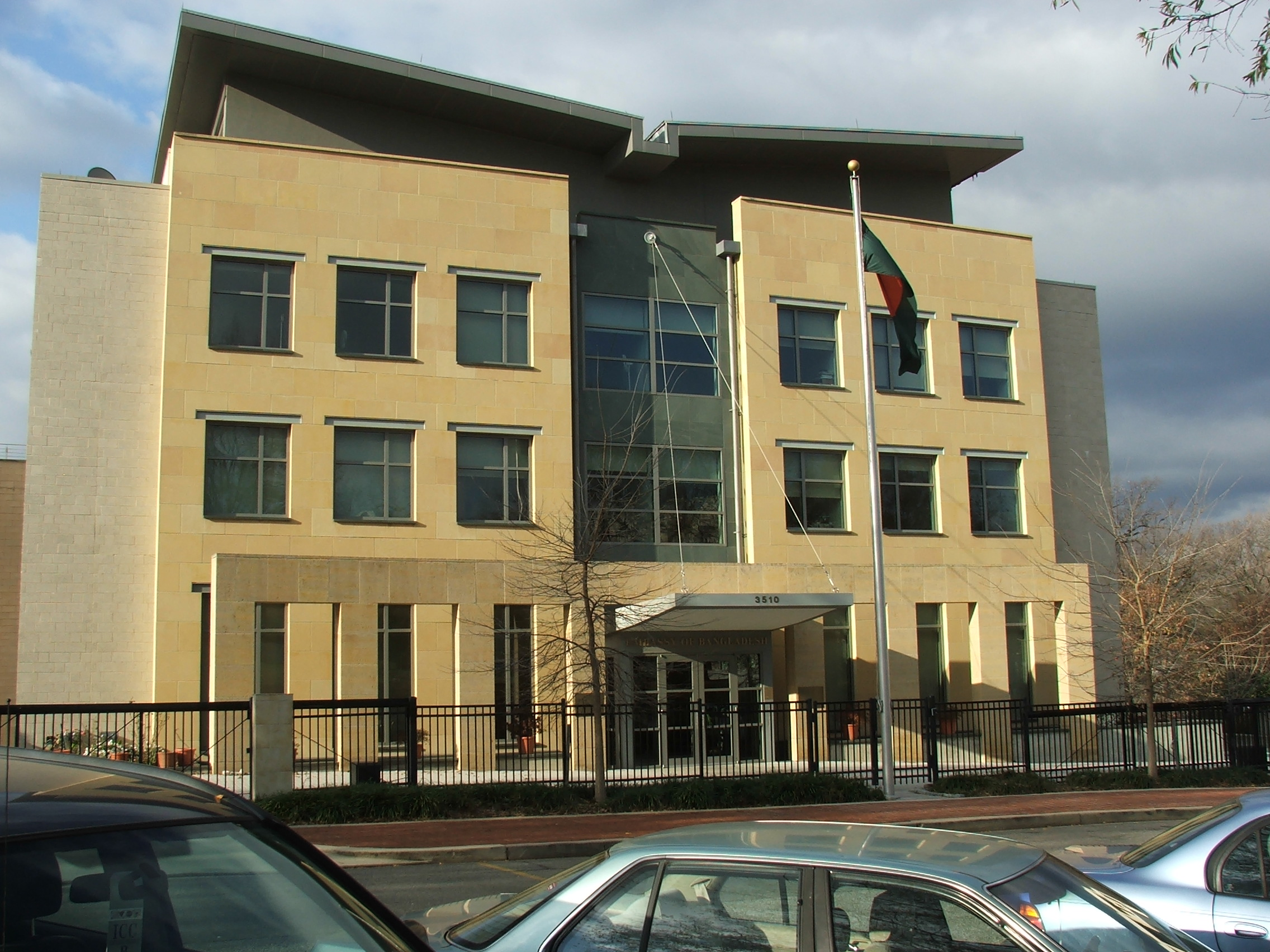 Embassy of The People's Republic of Bangladesh in the United States, located at 3510 International Drive NW in Washington DC.